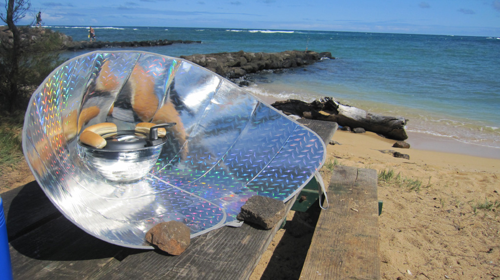 We had an hour to kill, so we went to a little beach park in town and cooked up some hot dogs for the kids while they played. This universal lid has a wide black rim that does an excellent job of toasting the buns in about 5-10 minutes.